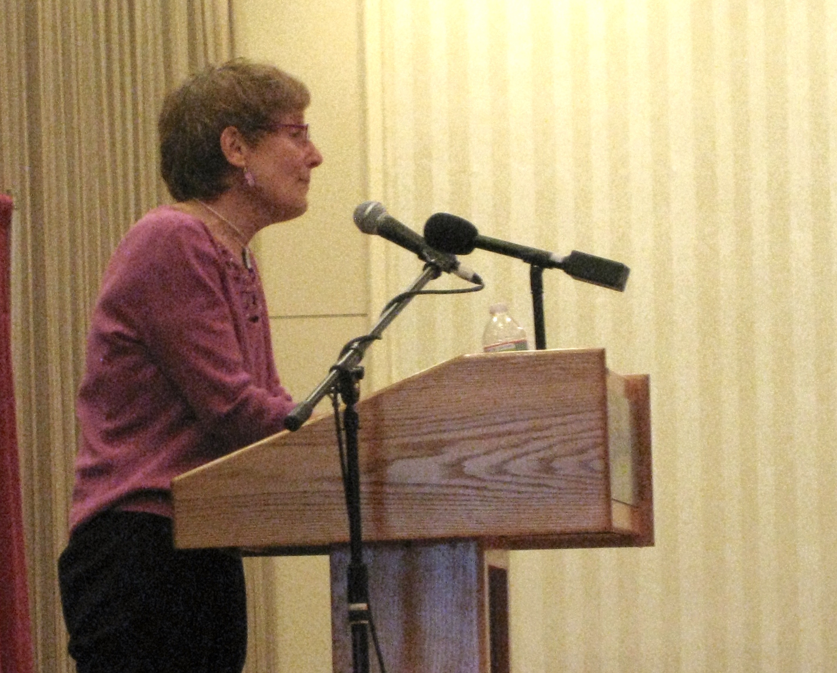 Kathy Brodsky giving keynote address